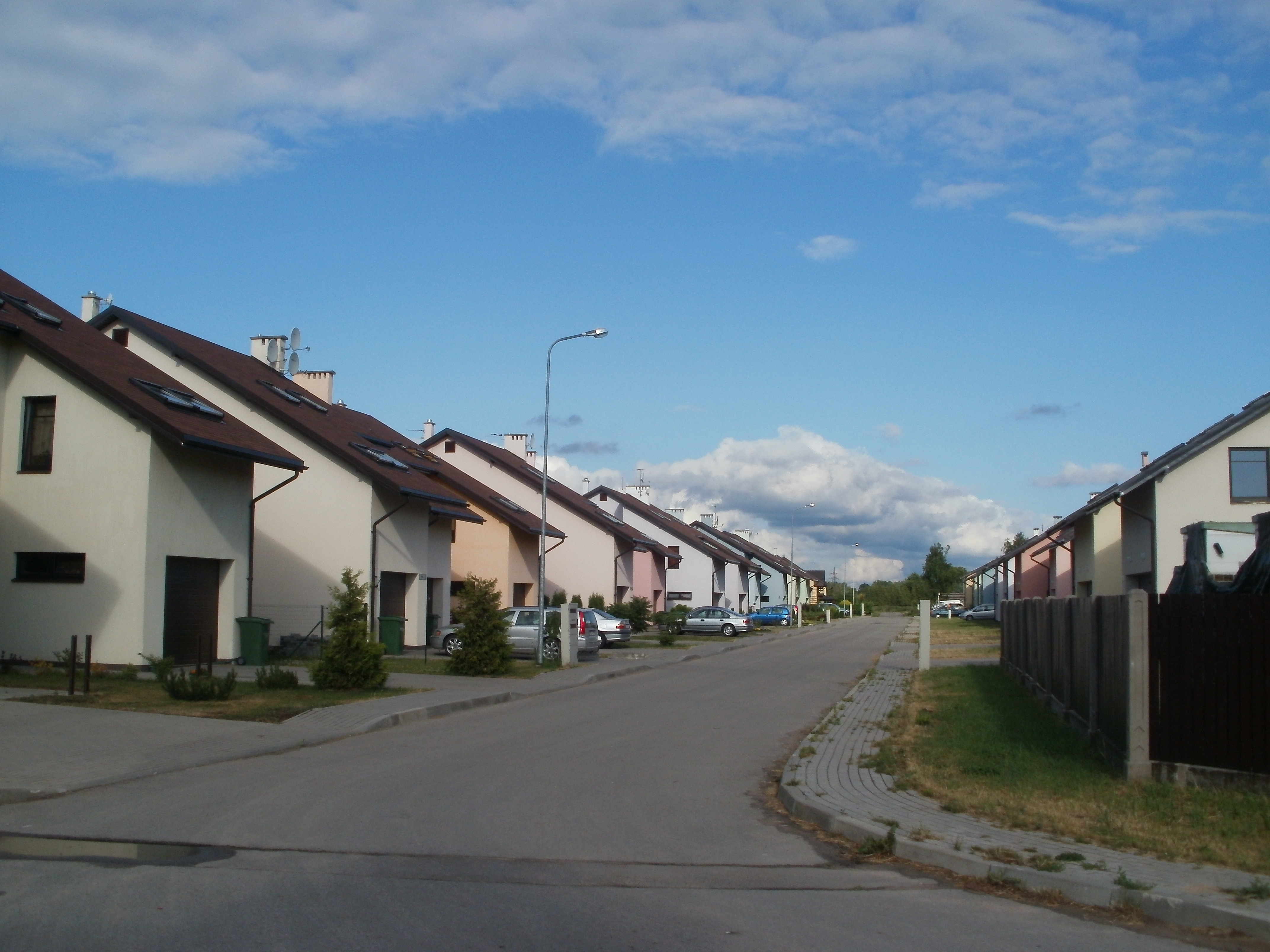 Ošu Street in Vimbukrogs village (Latvia)